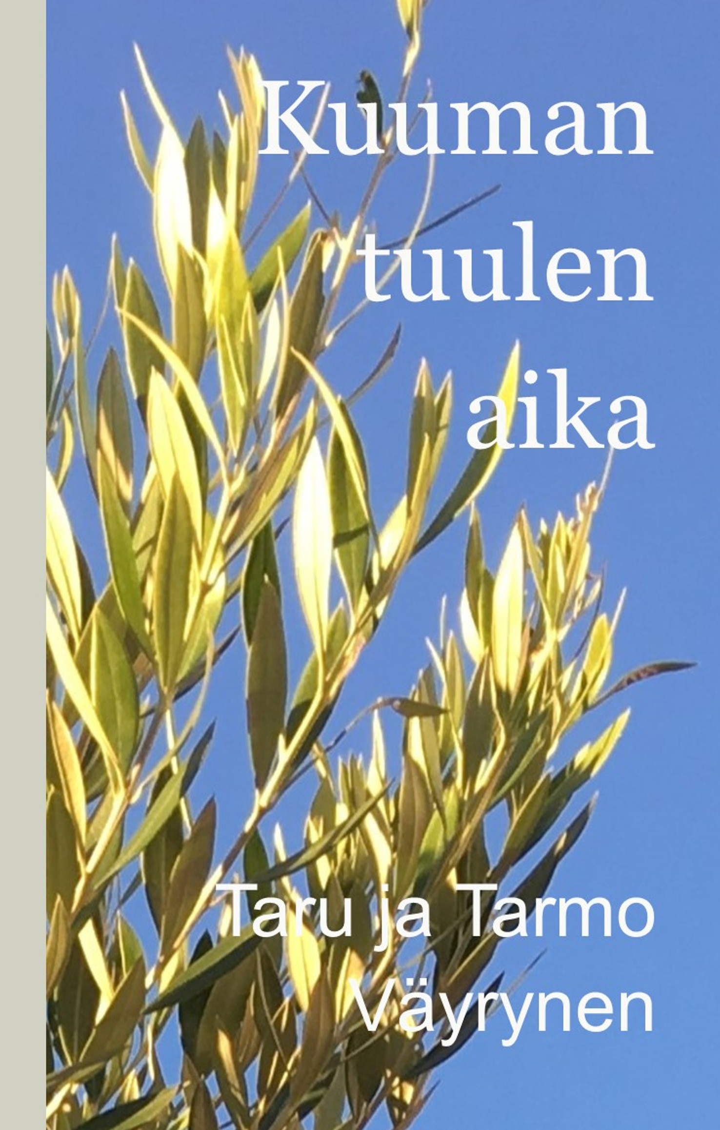 Kuuman tuulen aika